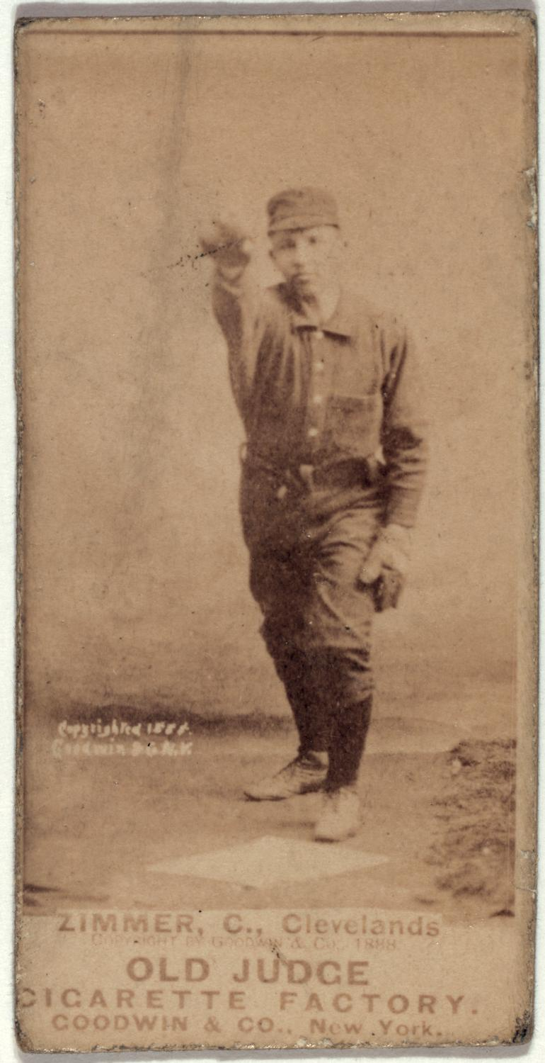 Baseball card of Charles Louis "Chief" Zimmer